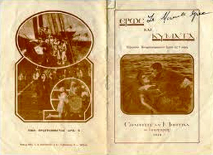 Advertising page for Greek film “Eros and waves”, 1927